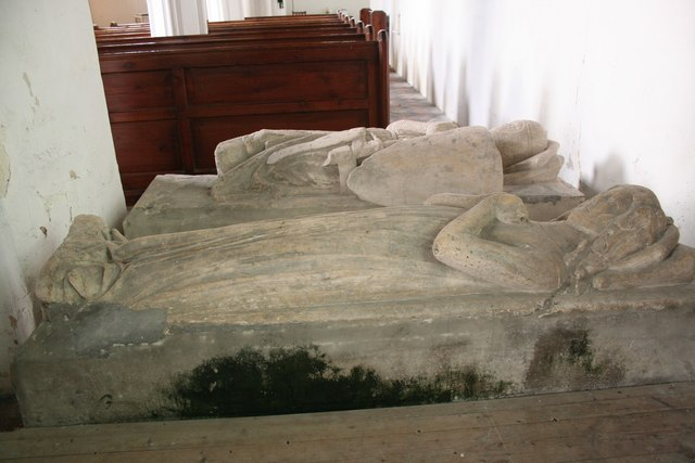 Effigies of Sir Philip and Lady Marmion in St Benedict's parish church, Scrivelsby, Lincolnshire. Sir Philip died in about 1290. He is shown in mail armour and originally had crossed legs, indicating that he fought in a Crusade.